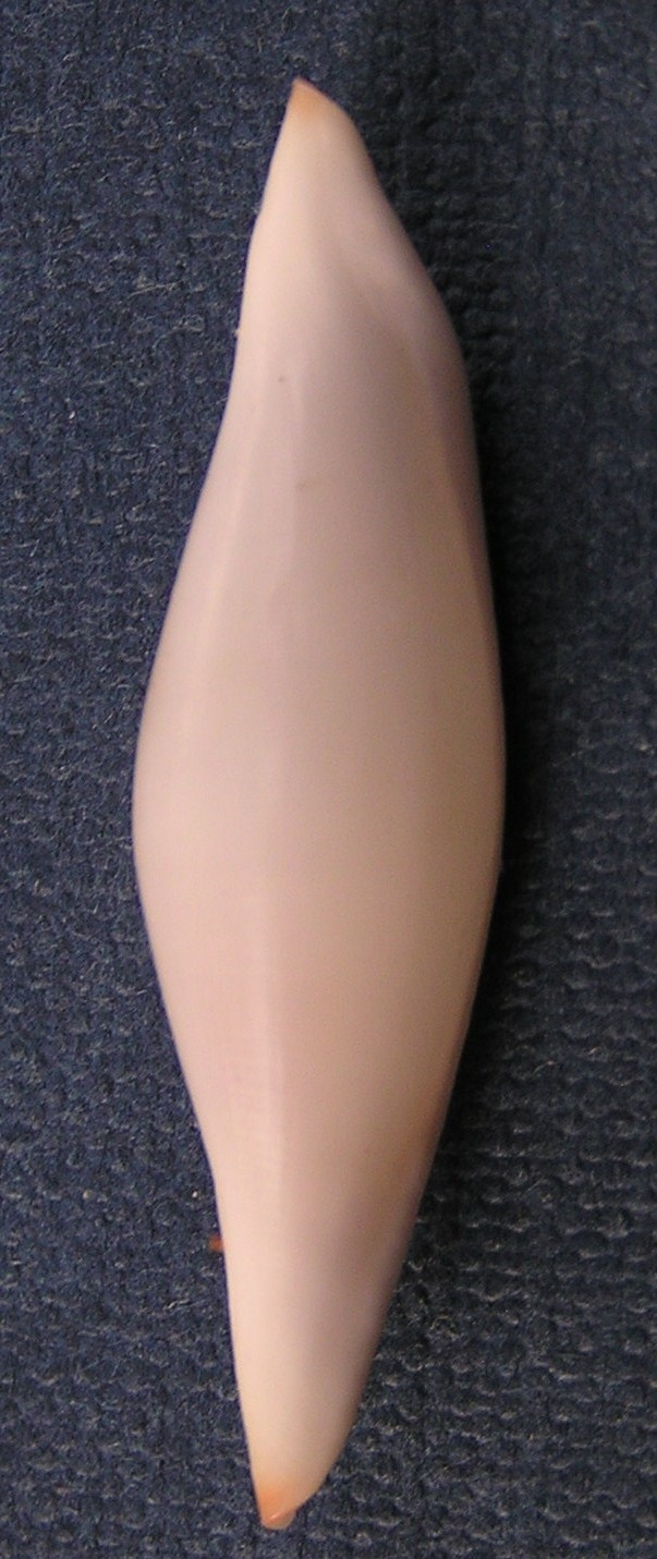 Pellasimnia improcera (Azuma & Cate, 1971) , a false cowry from the family Ovulidae; Philippines